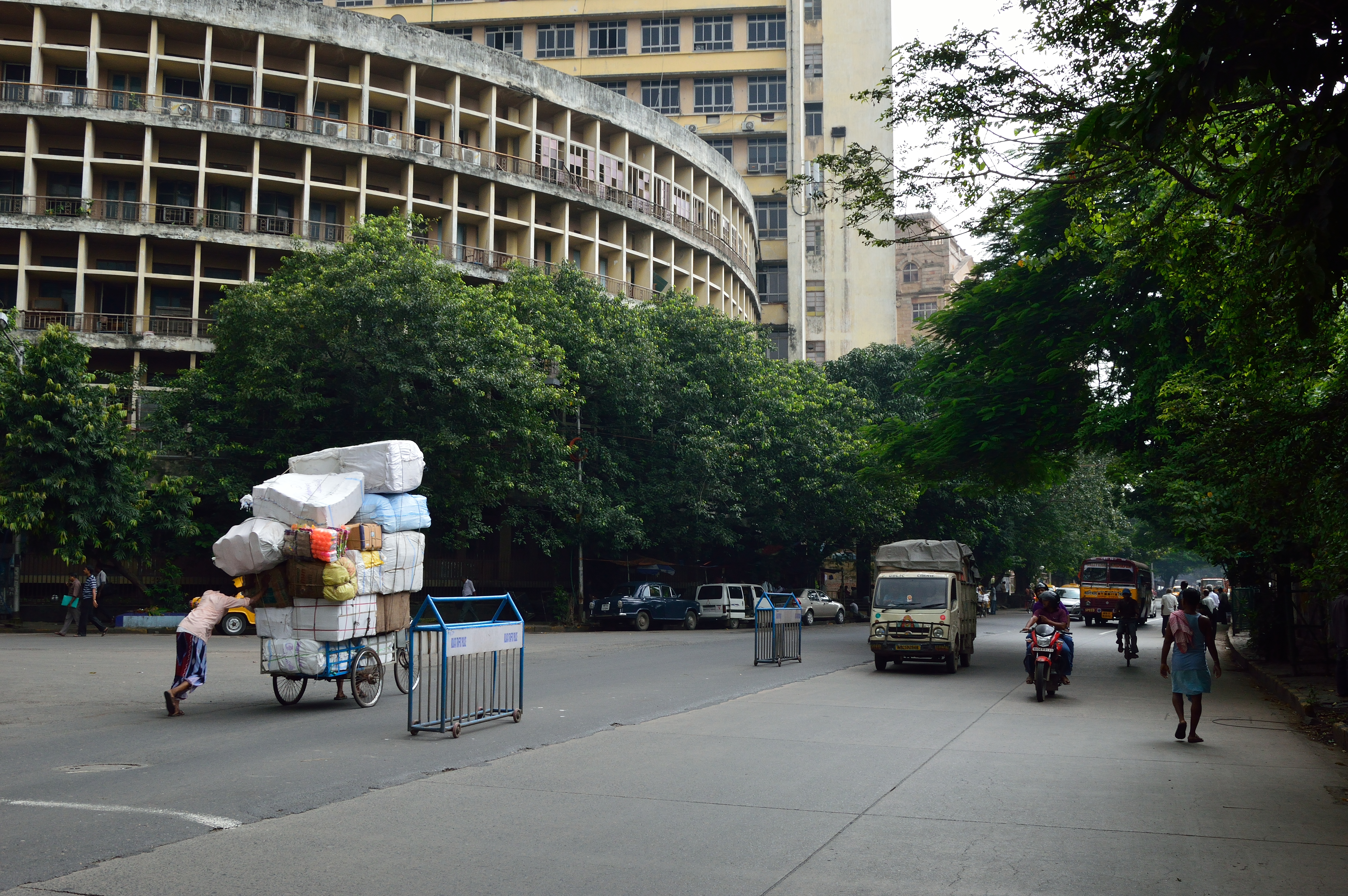 Photographed in Kolkata.